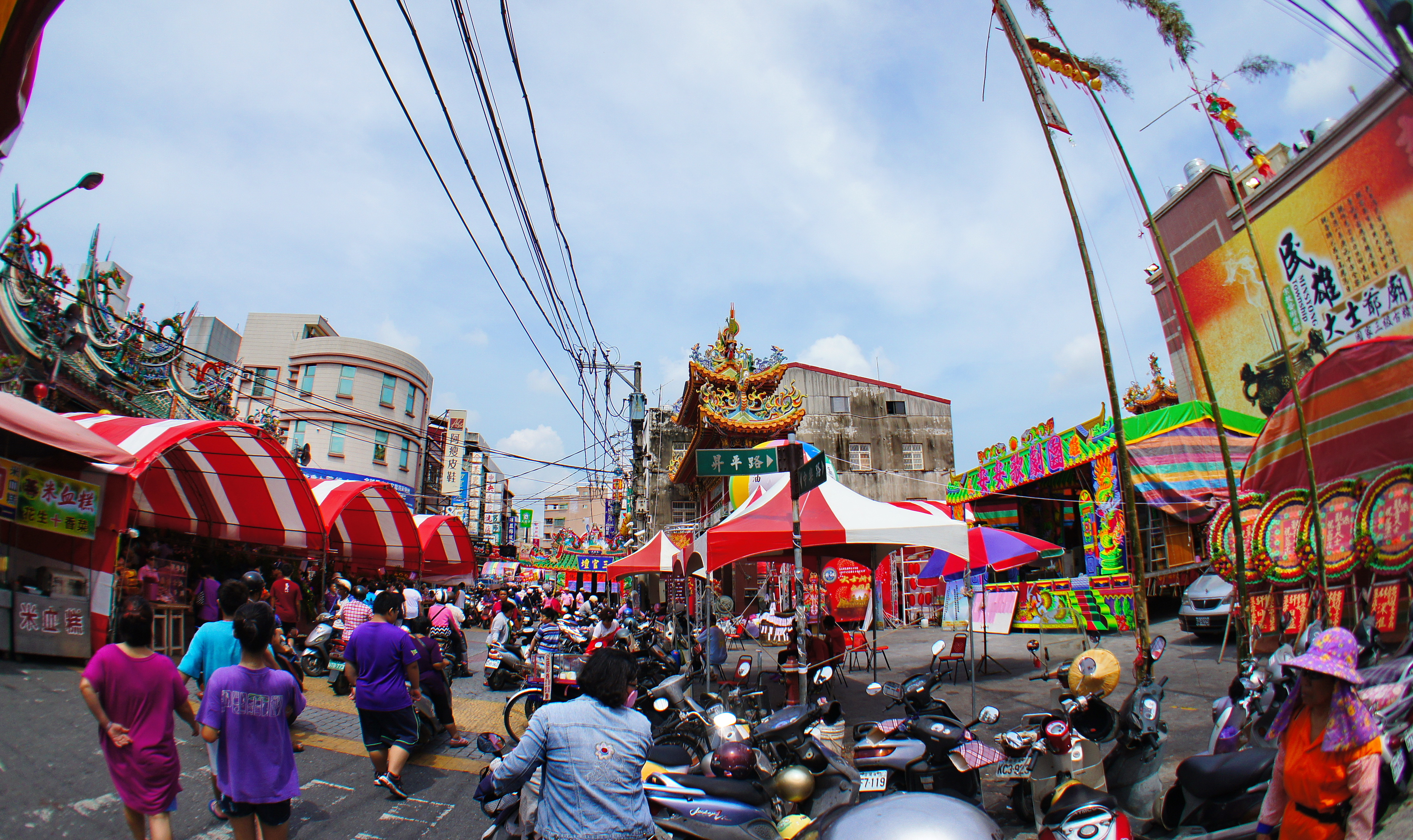 Dashiye Ceremony of Minxiong, Dashiye Temple, Chiayi County, Taiwan.